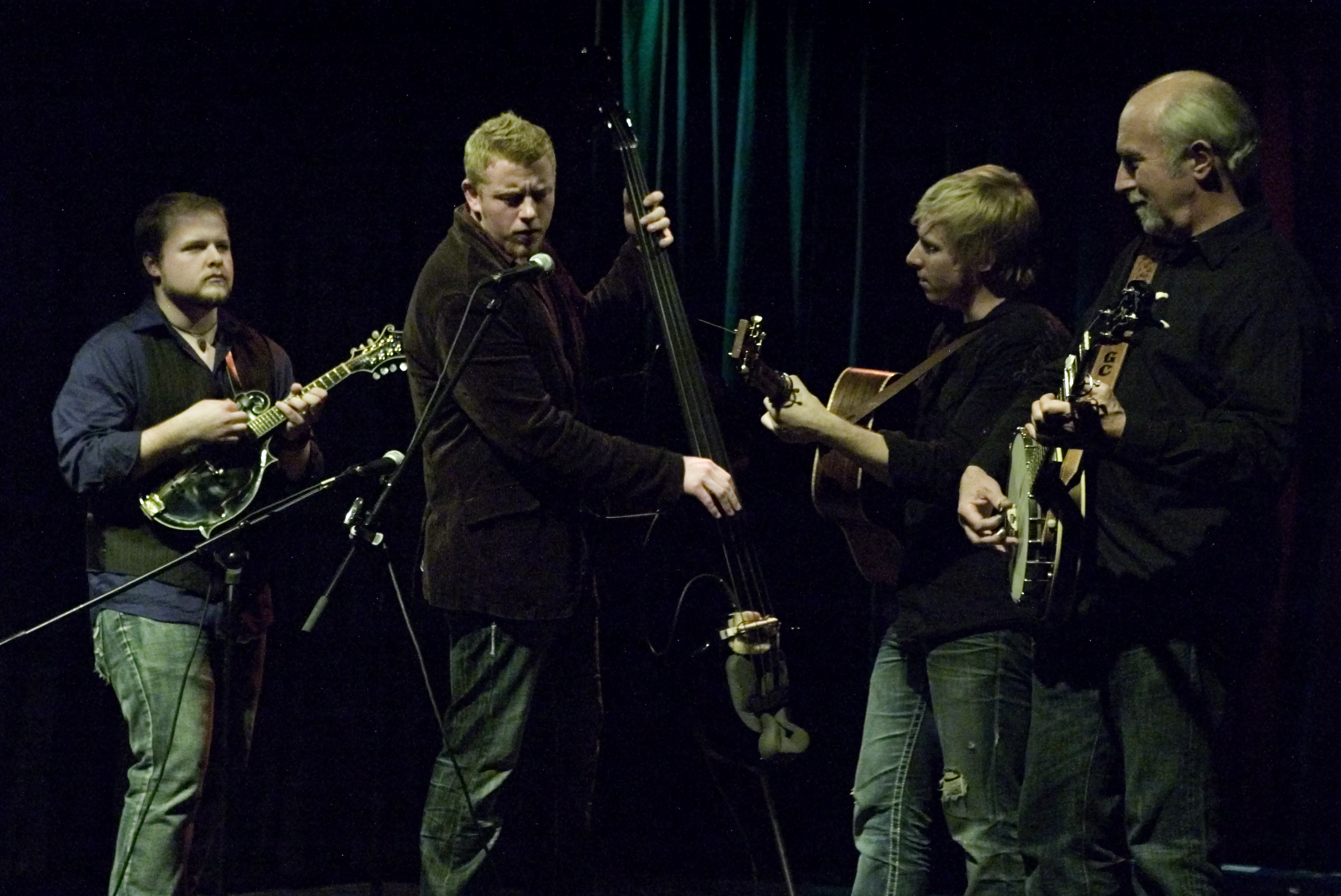 Special Consensus Licensing